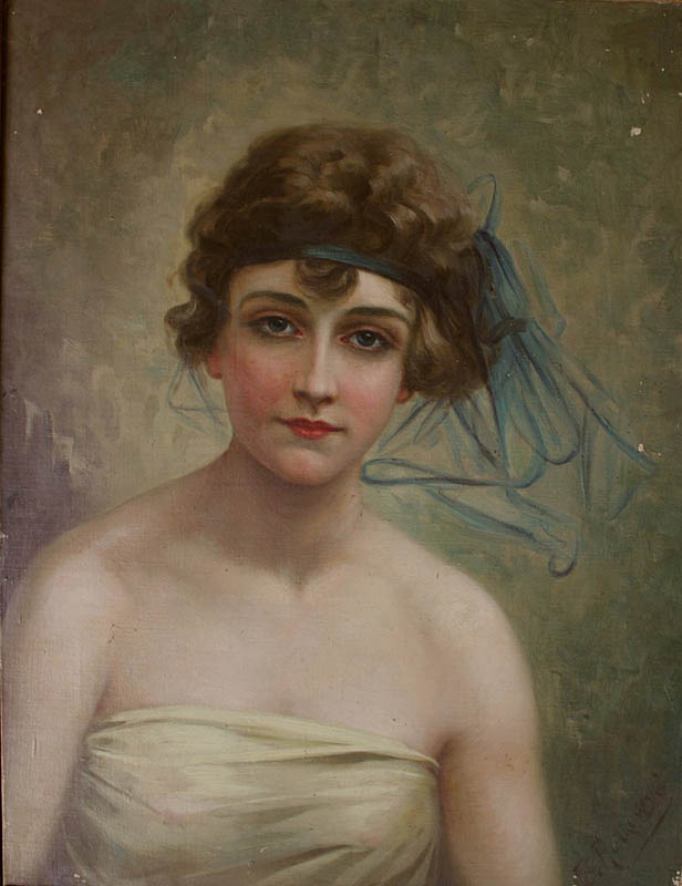 Woman with a headband: oil on canavas painted by Boleslaw Rutkowski